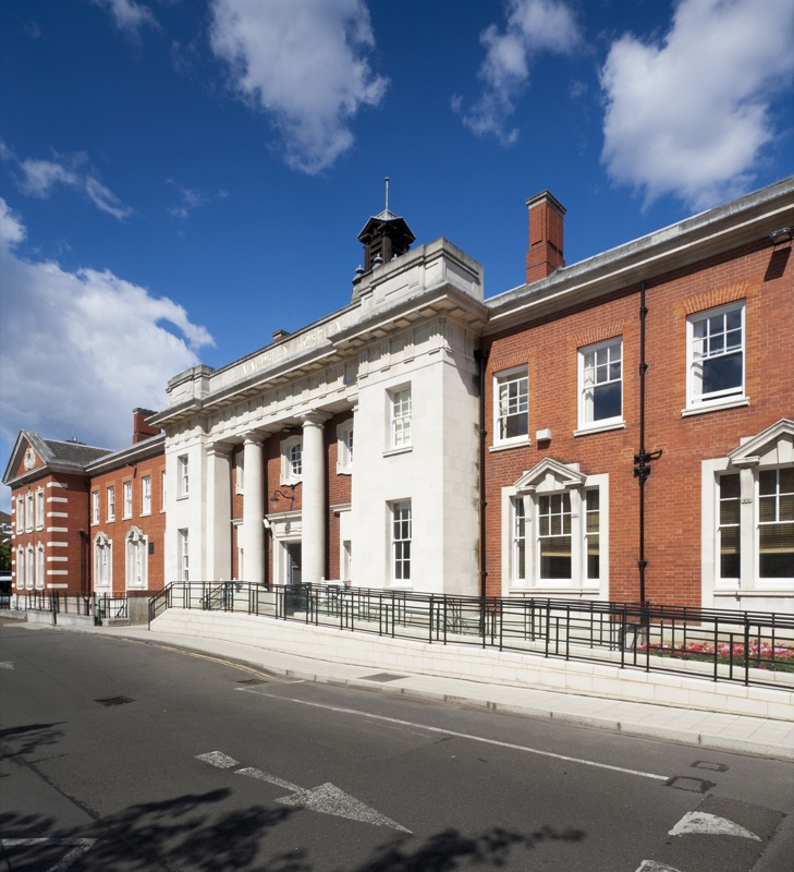 Maudsley Hospital Main Building